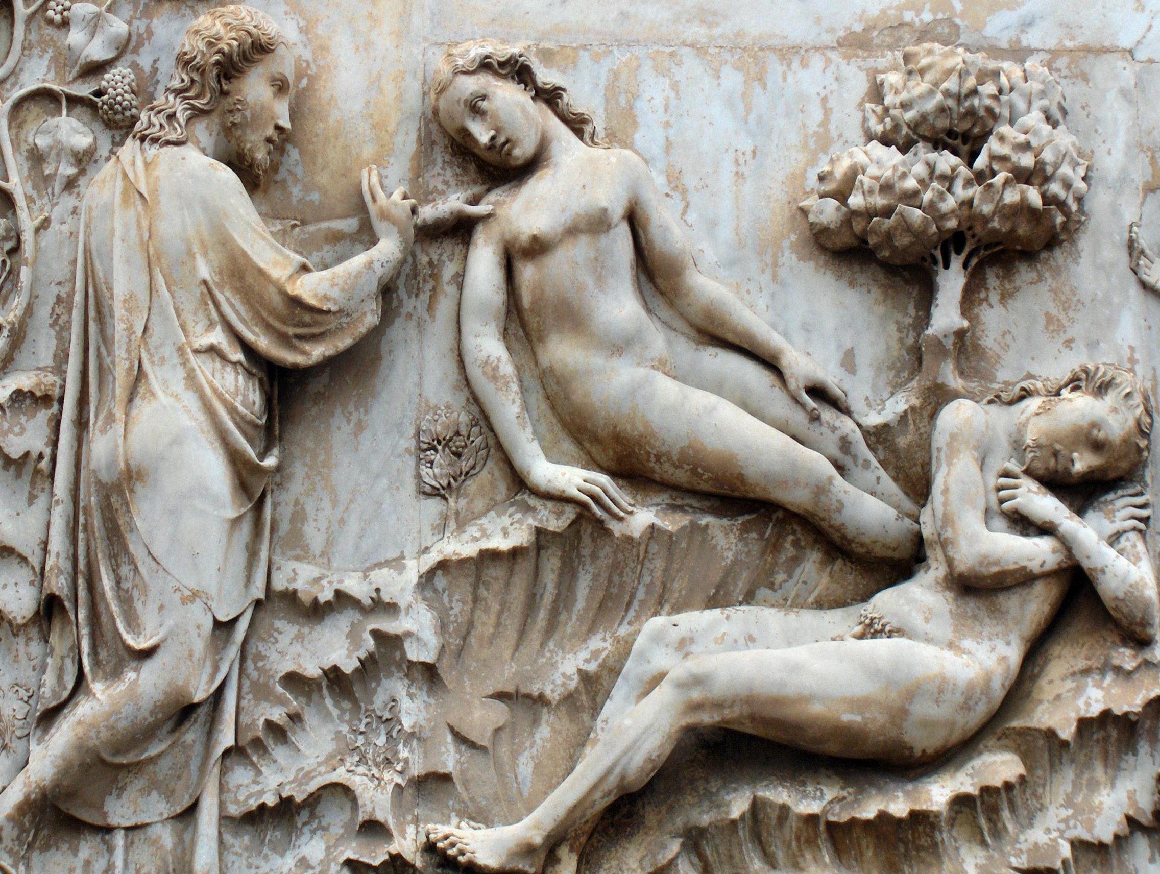 Genesis : Creation of Eve; marble relief on the left pier of the façade of the cathedral; Orvieto, Italy